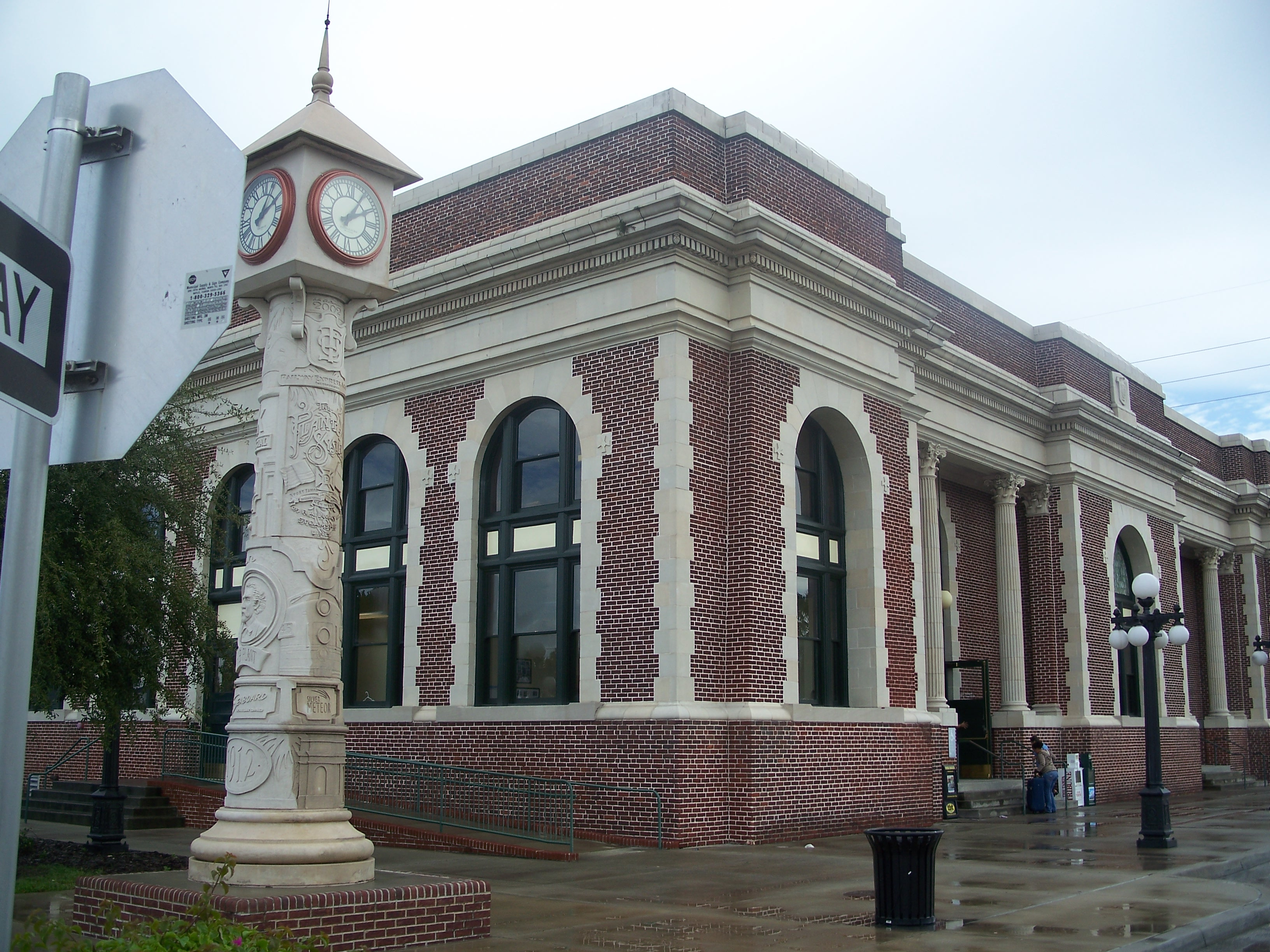 Old Union Railroad Station, in Tampa, Florida